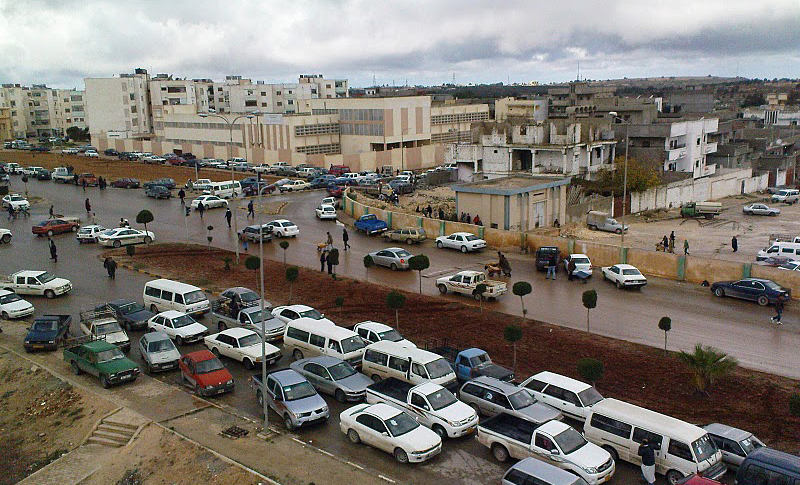 Neighborhood of Ganaan in Bayda city of Libya in 2010-11-15.